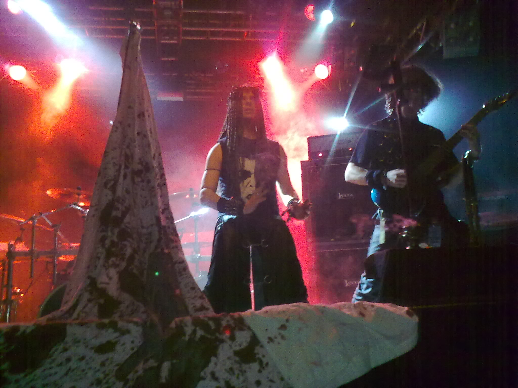 Darkend show in Helsinki, Finland.